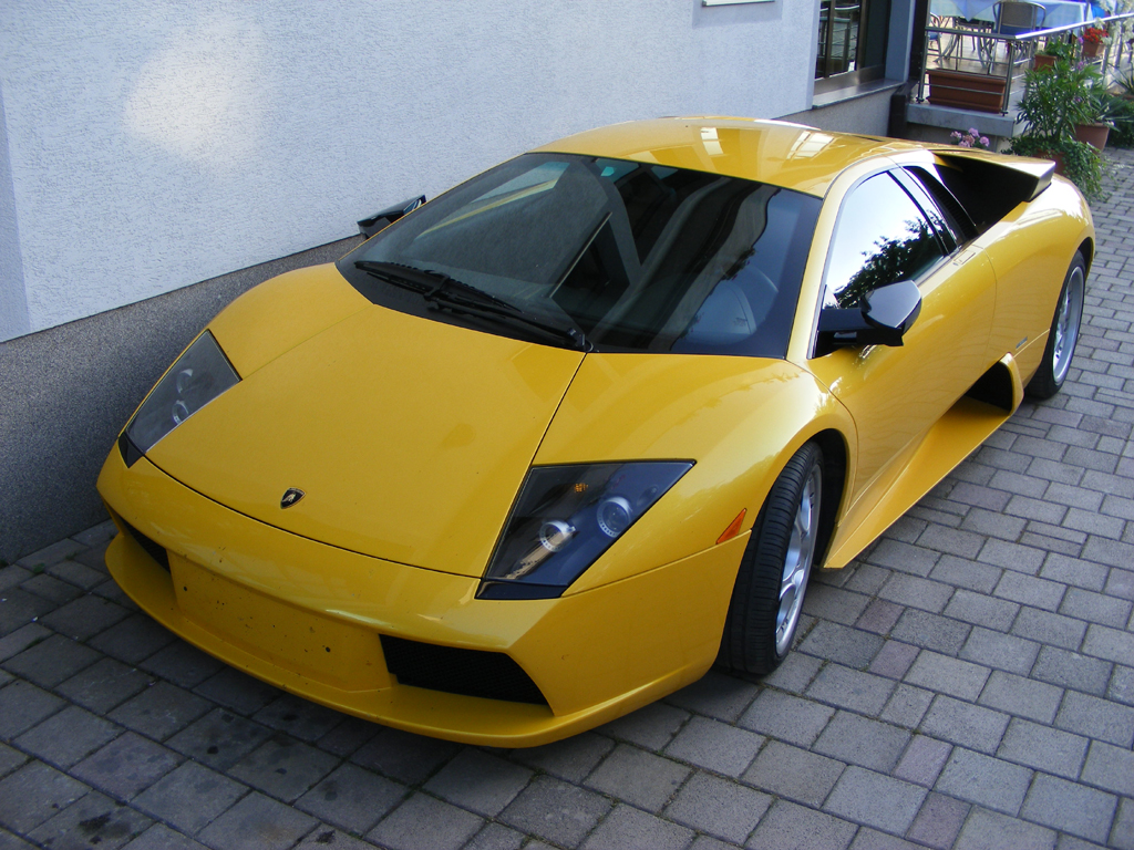 A yellow Lamborghini Murciélago parked in Ohrid, Republic of Macedonia.